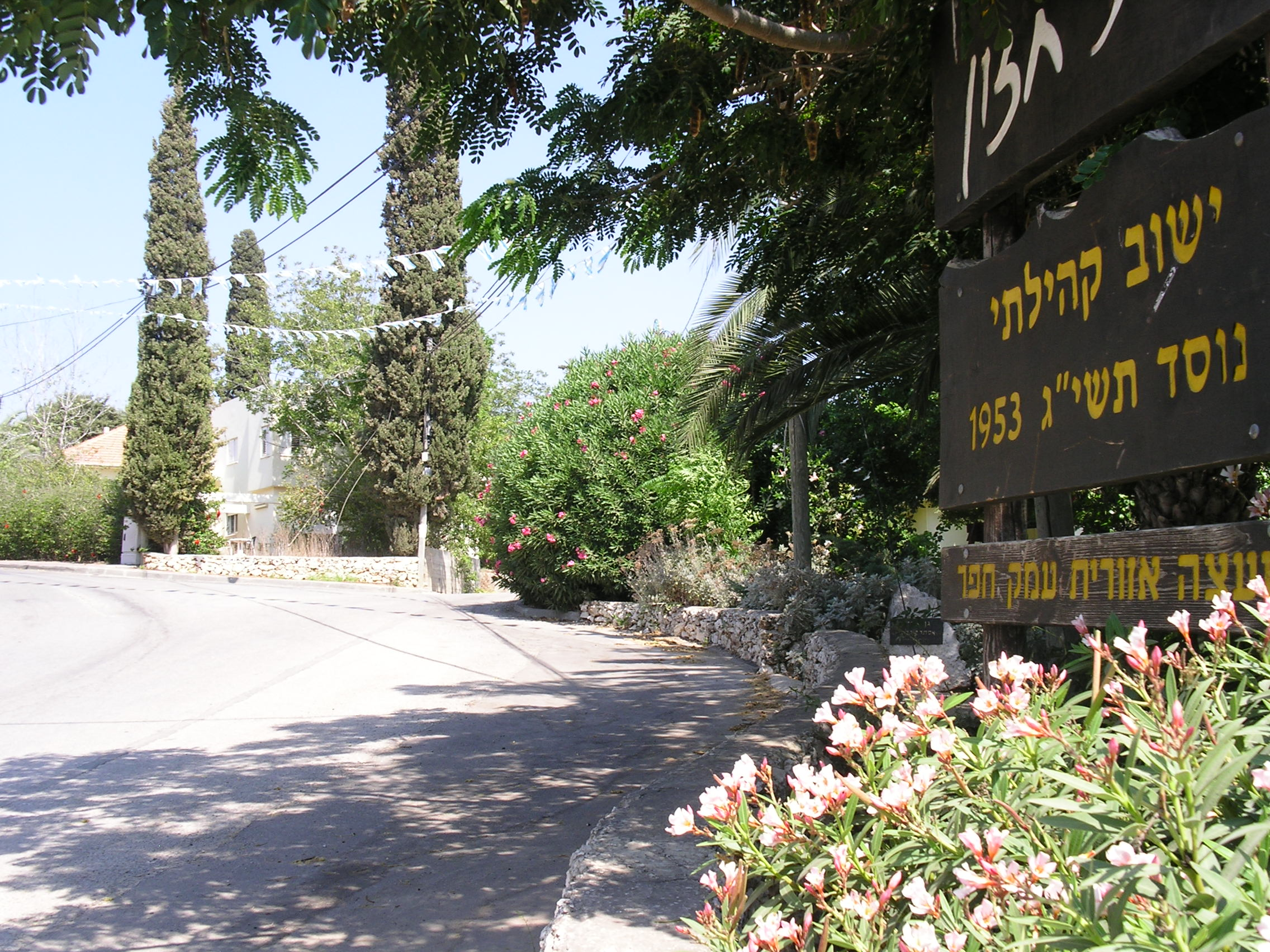 The base admission of Beit Hazon.